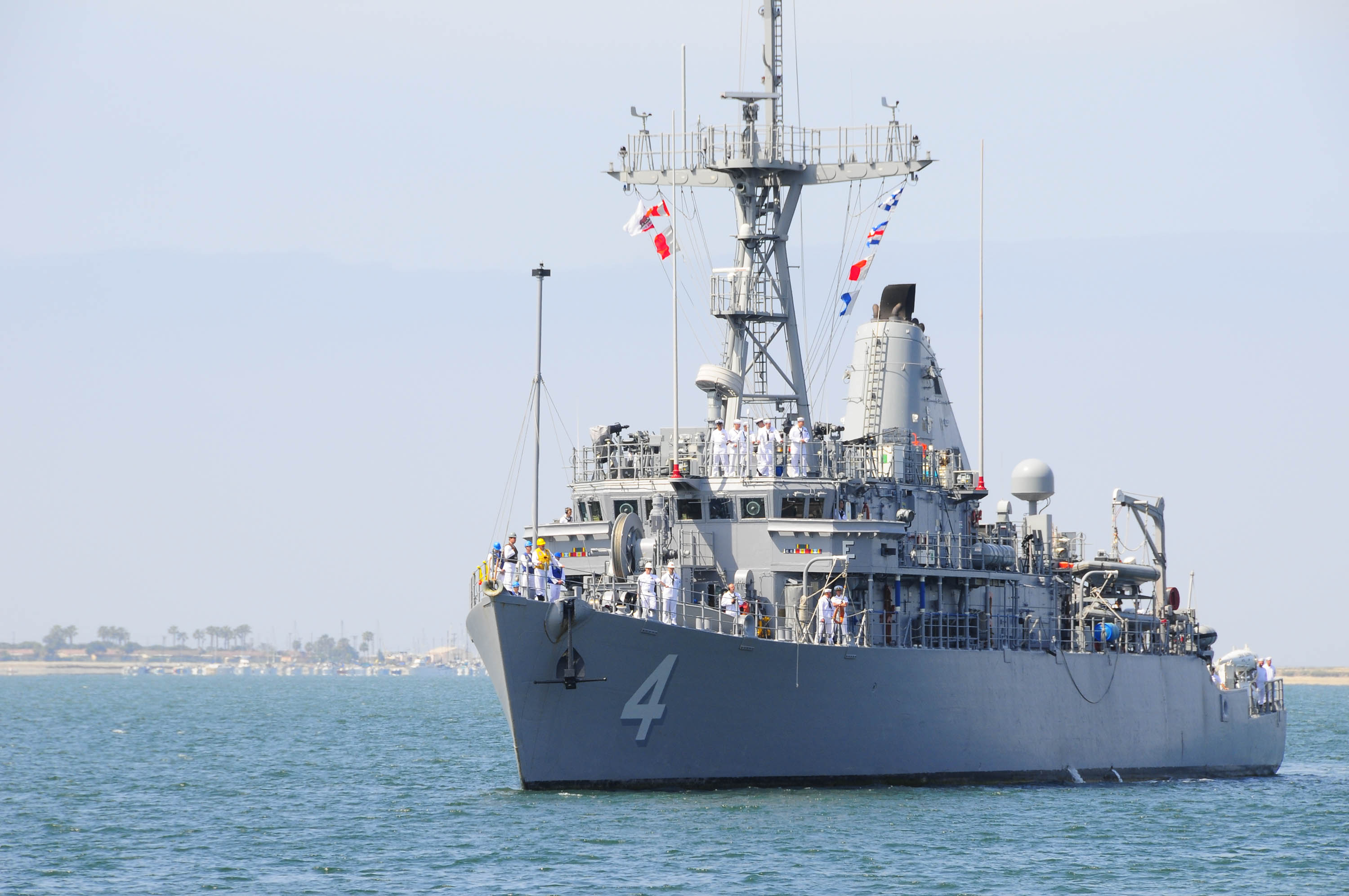 SAN DIEGO (May 22, 2009) The mine countermeasures ship USS Champion (MCM 4) arrives at Naval Base San Diego after participating in search efforts for a downed HH-60 Sea Hawk helicopter that went down May 19 off the coast of Southern California. Champion is assigned to Commander, Mine Countermeasure Squadron and is shifting homeports from Ingleside, Texas to Naval Station San Diego as part of the Defense Base Realignment and Closure. (U.S. Navy photo by Mass Communication Specialist 2nd Class Jennifer S. Kimball/Released)